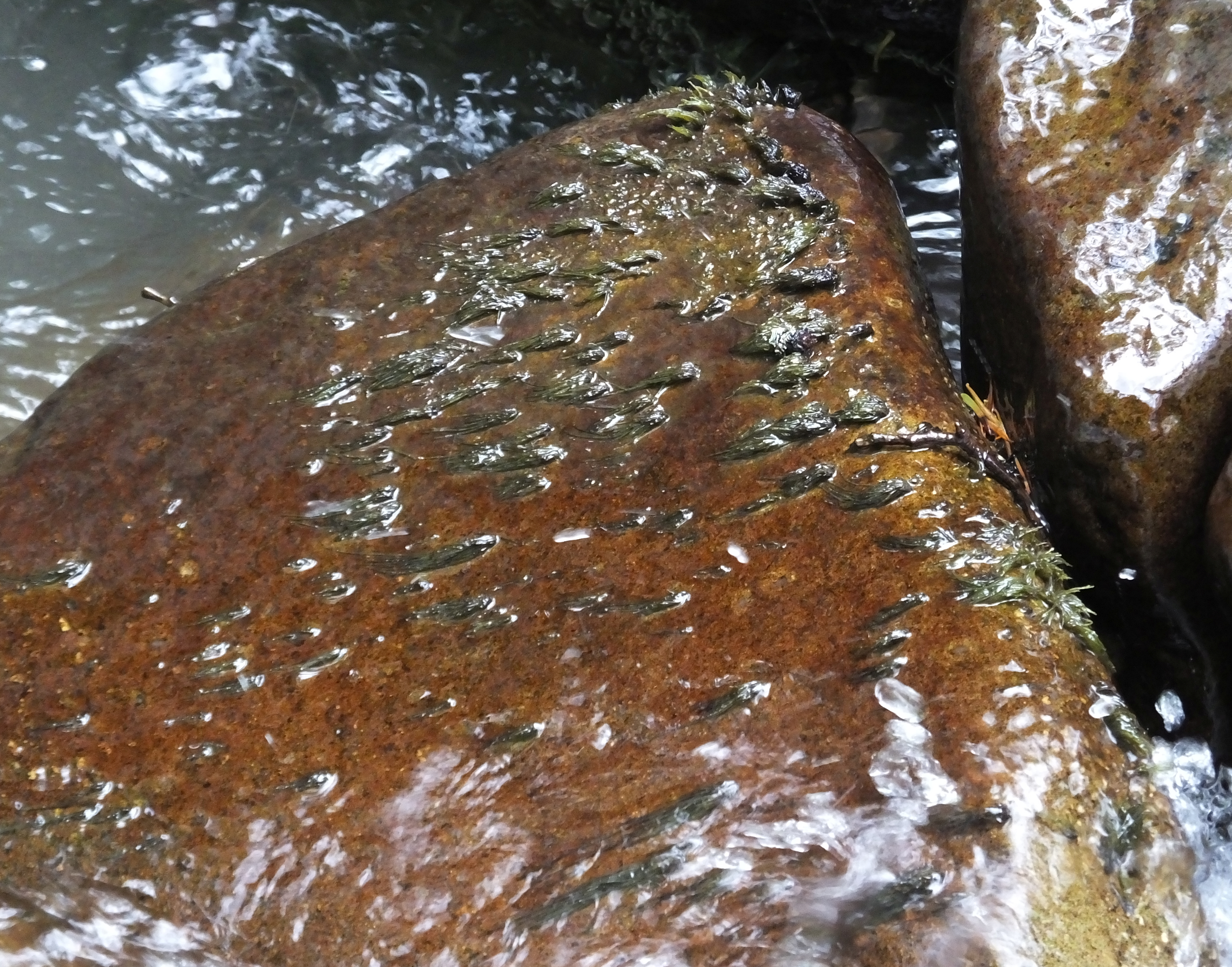 Lemanea sp. on a boulder in a stream in Carpathian Mts. (Poland)